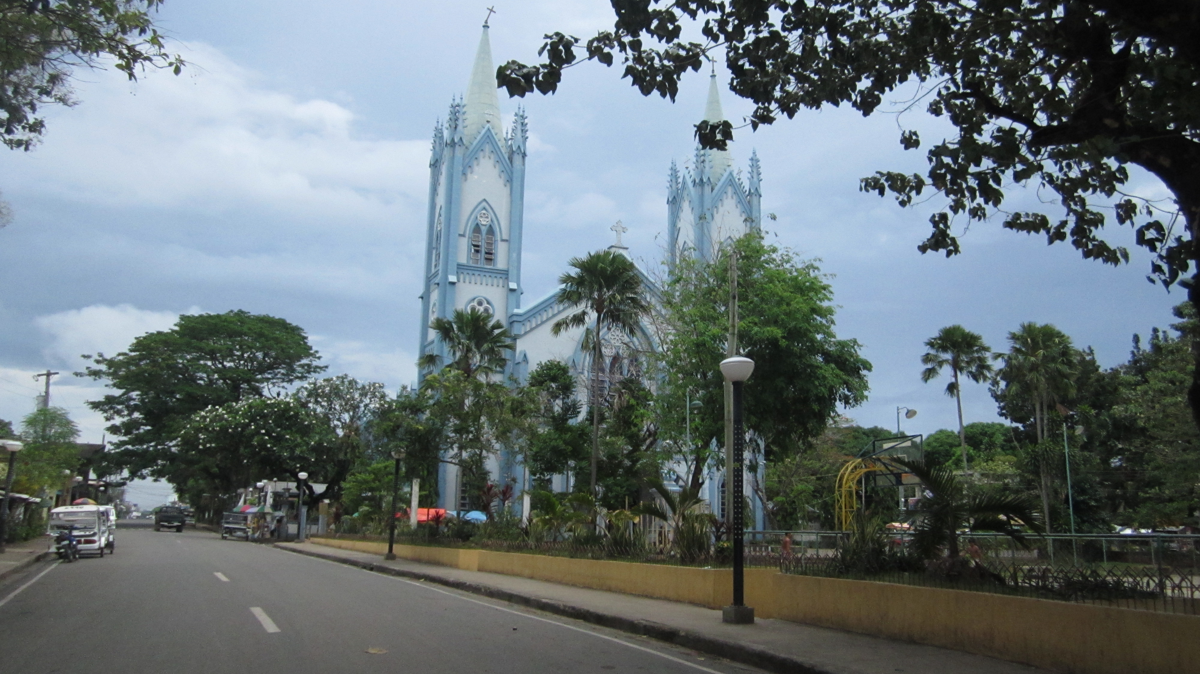 Catholic Church in Puerto Princesa, Palawan